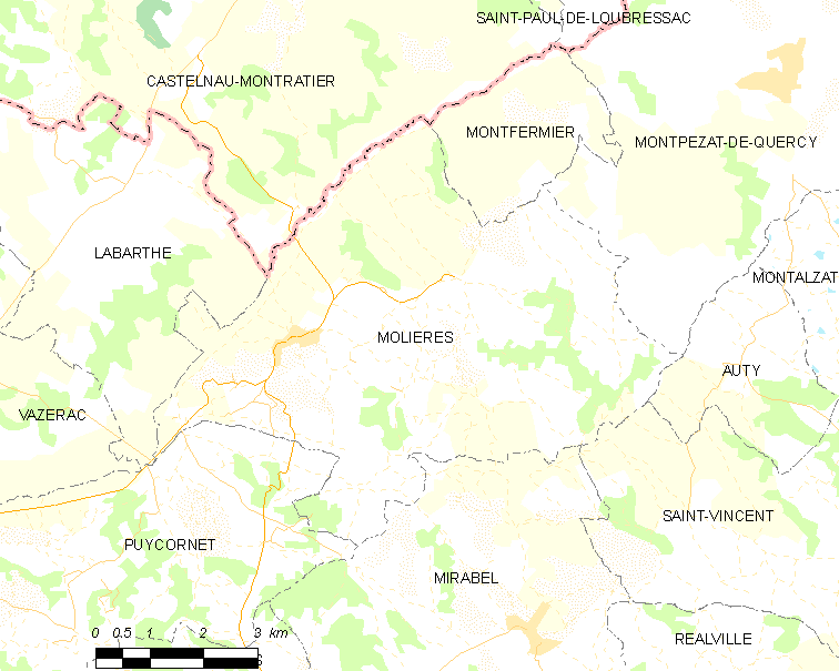 Map of French municipality Molières